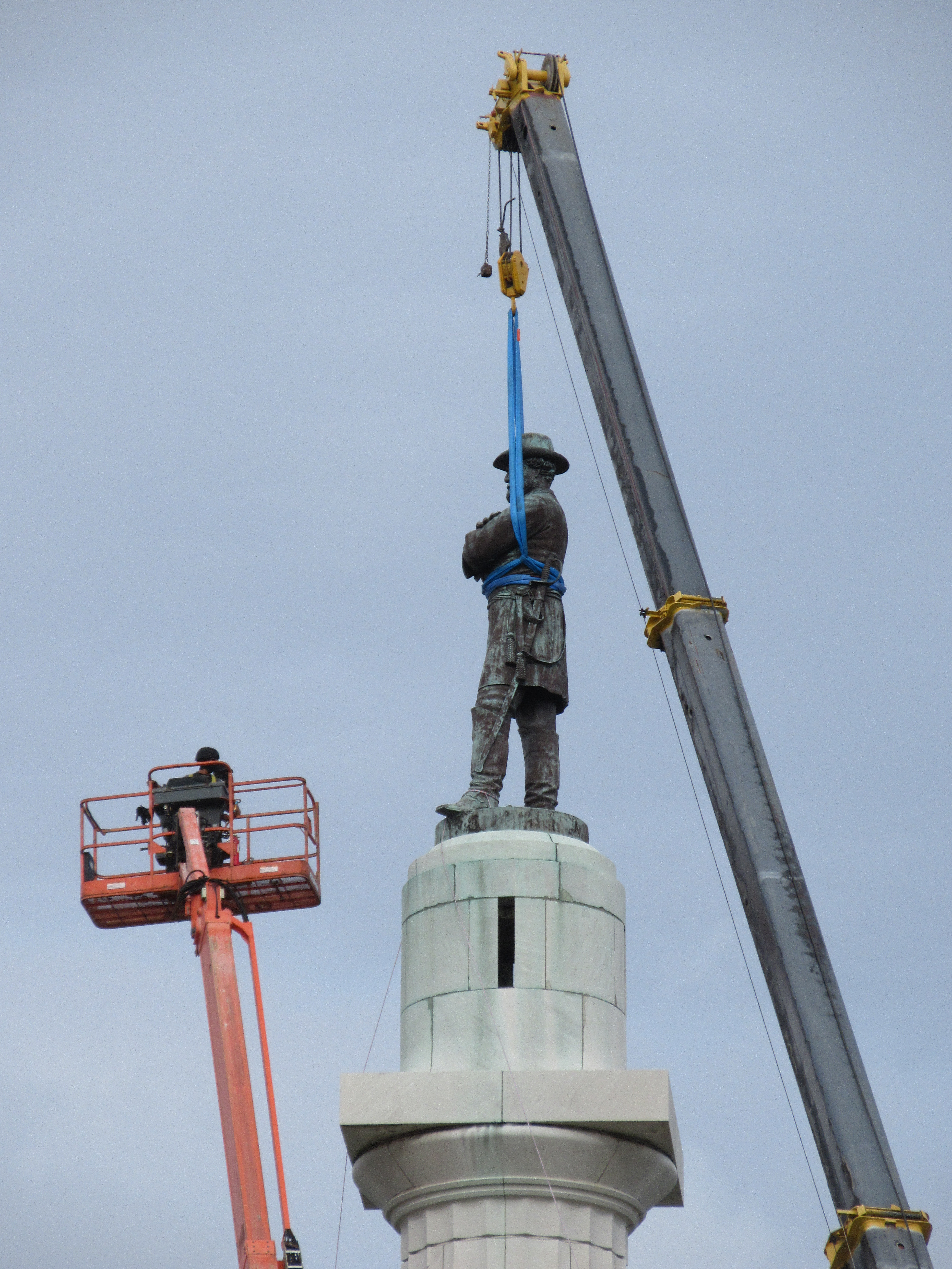 Robert E Lee statue at Lee Circle New Orleans being removed from atop the column. Watched from Howard Avenue side. The crowd watching had a block party festive atmosphere. I was told there was a small group of neo-Confederates on the other side of the circle protesting the removal. Photo by Infrogmation of New Orleans, 19 May 2017. Free reuse with author attribution in accordance with any of the licenses listed by the author/photographer. Reuse without photo attribution is a violation of copyright.